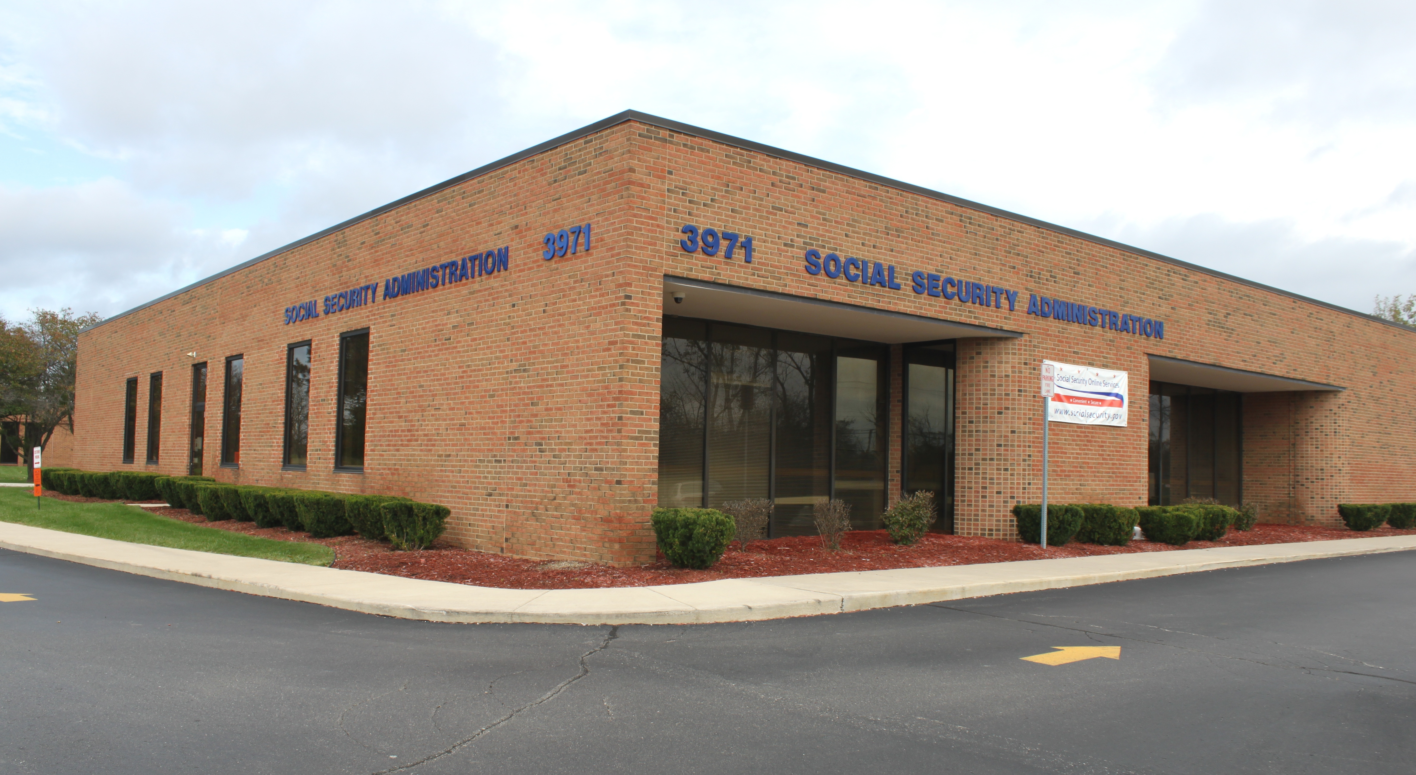 Social Security Administration Offices, 3971 South Research Park Drive, Ann Arbor, Michigan